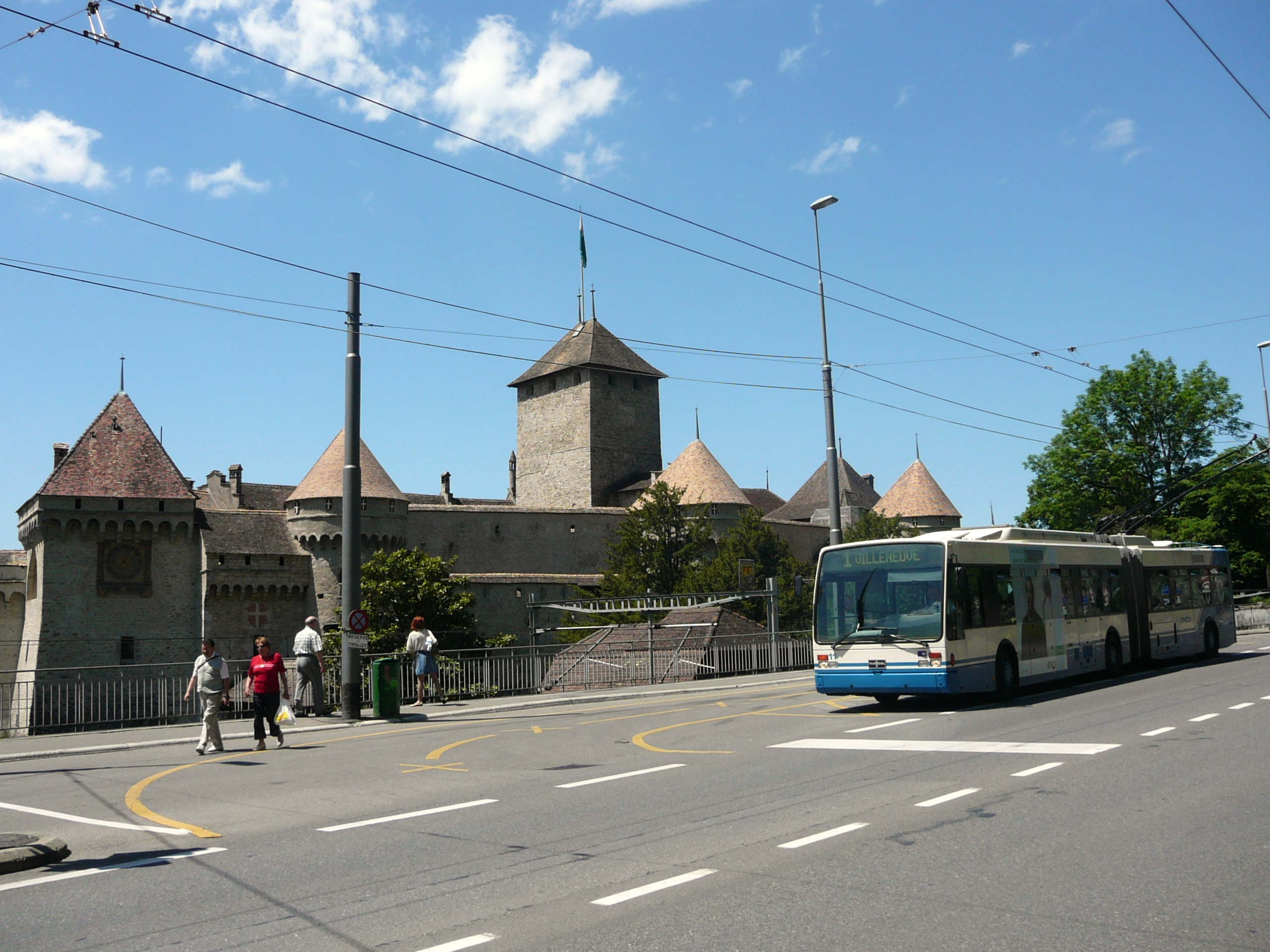 A trolleybus of VMCV passing Chillon Castle